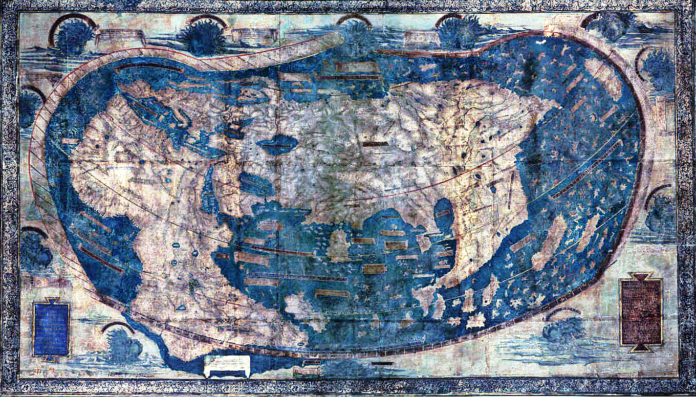 The Yale world map of "Henricus Martellus Germanus" (Heinrich Hammer), probably from Florence 1490-92. It is the most detailed "Dragon Tail" map by Martellus. It is the only one with a coordinate grid. It was found 1960 in bad condition and is not restored yet. It is now in the Beinecke Library of Yale University. There seems no better image available.